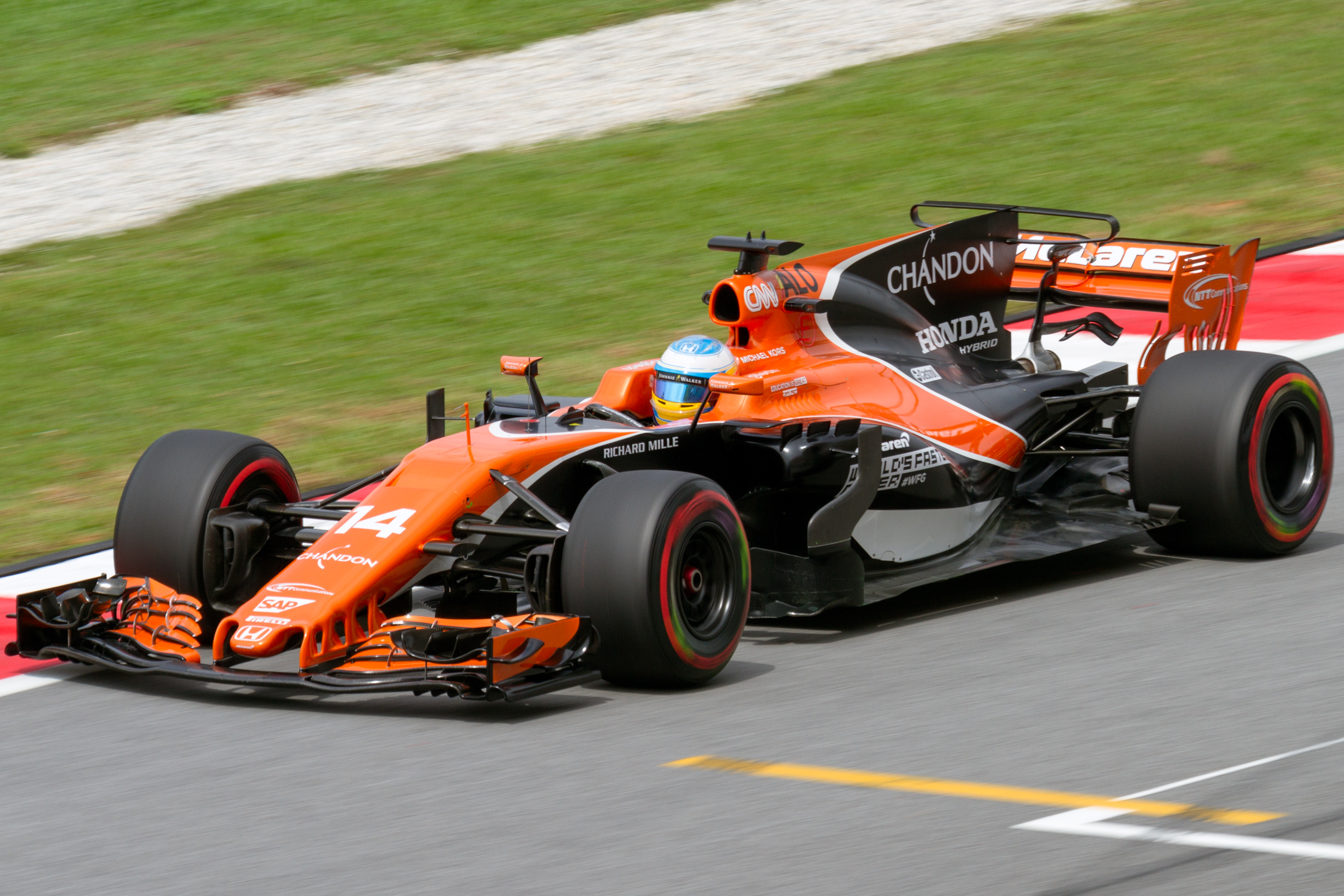 Formula One 2017 Rd.15 Malaysian GP: Fernando Alonso (McLaren)